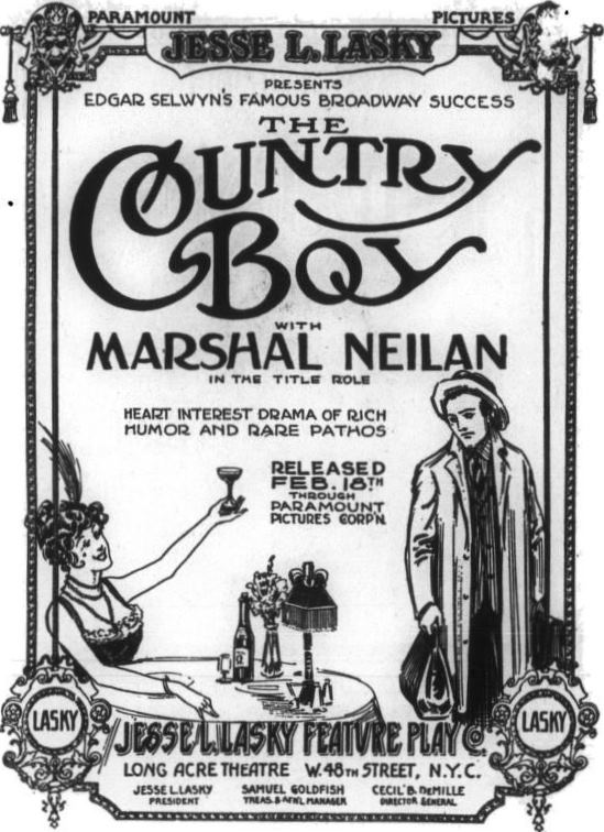 Advertisement for the American comedy drama film The Country Boy (1915) with Marshall Neilan, on page 27 of the February 20, 1915 Variety.